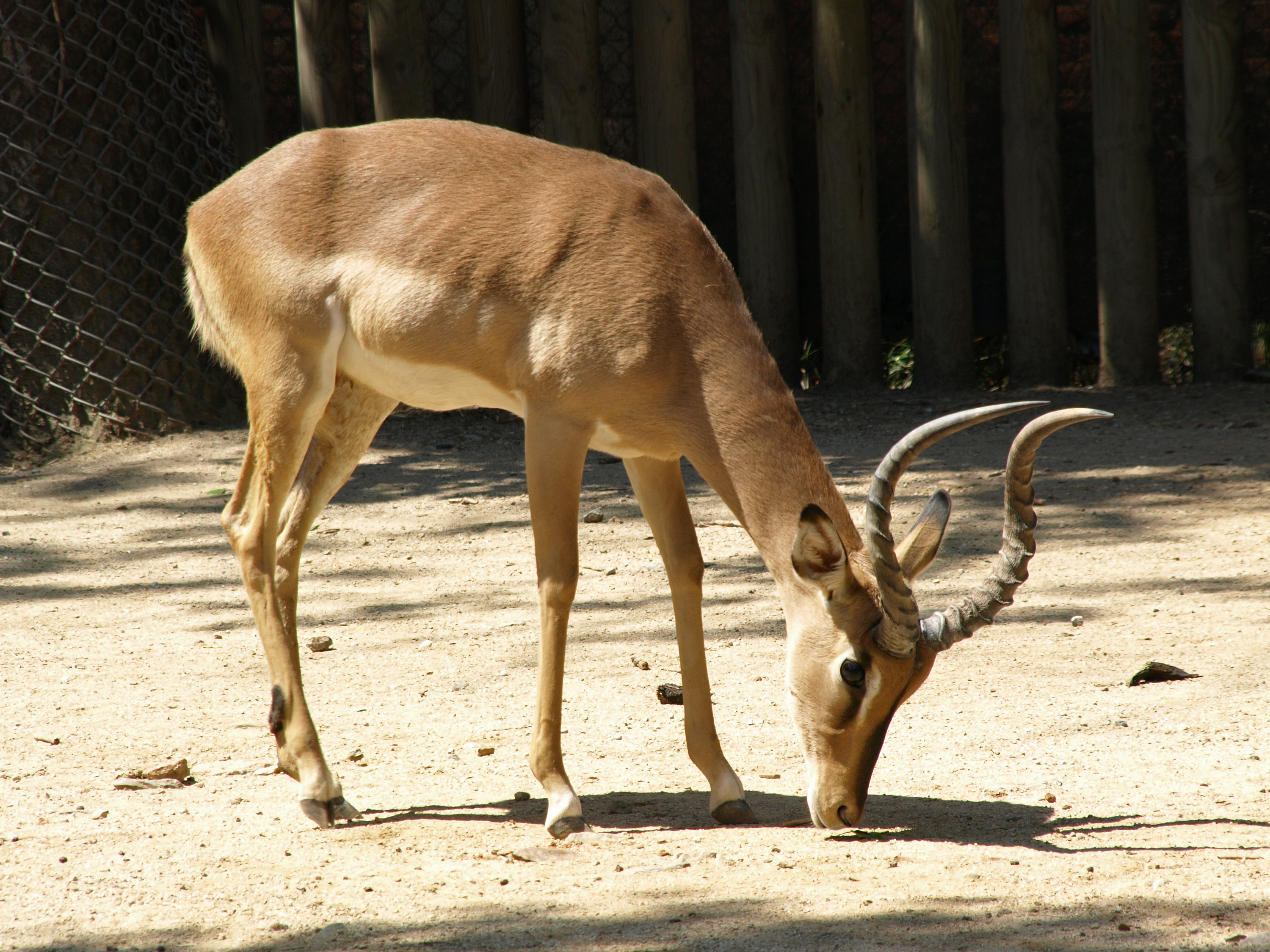 Impala (Aepyceros melampus) - Barcelona (Spain)